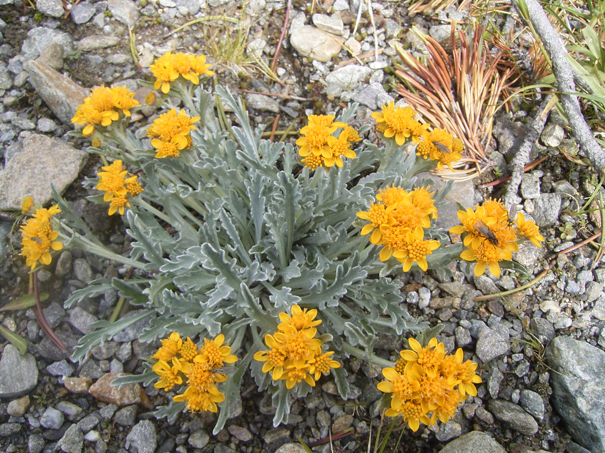 This photo shows Senecio invanus